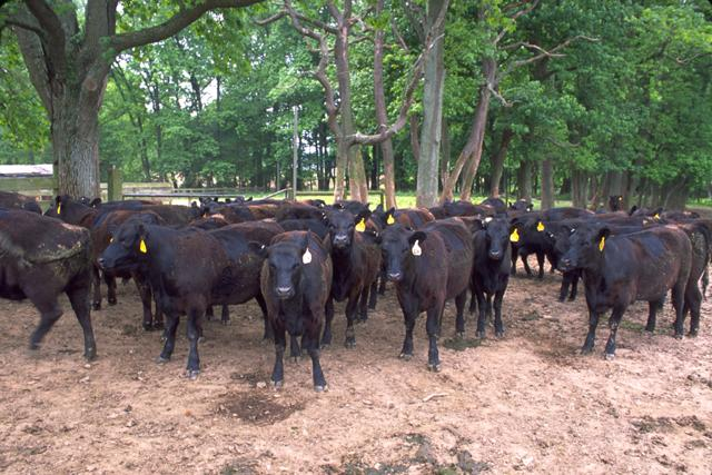 Angus cattle 11 from Angus cattle 11 thumbnail Image Number: 01cs0191 CD3460-011 Angus hefiers from the Wye Angus herd on Maryland?s Eastern shore. USDA Photo by: Bill Tarpenning